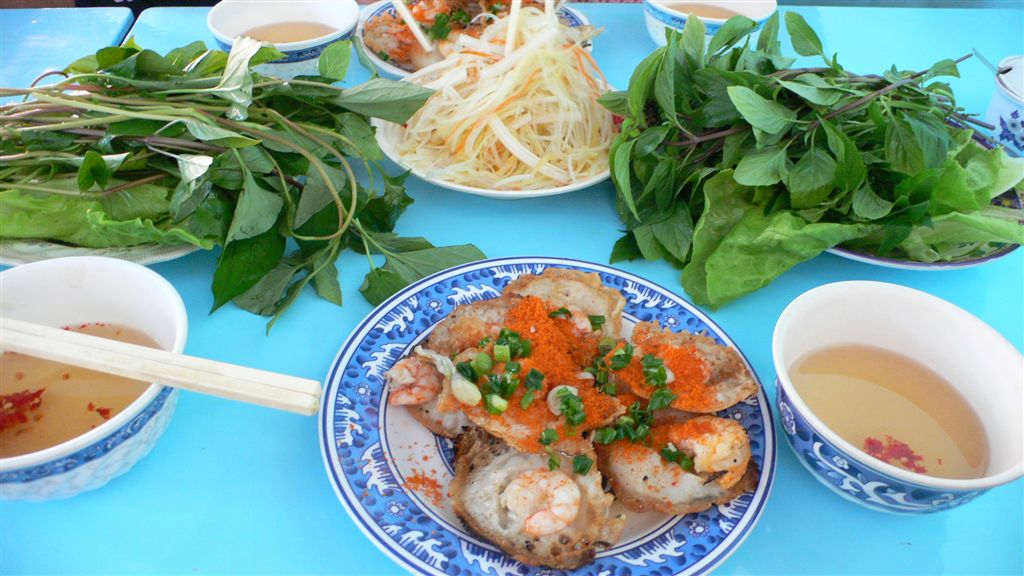 Bánh khọt. Excellent breakfast at Vung Tau, a sleepy beach resort off Ho Chi Minh City. The picture depicts all that is served at this popular breakfast shop.